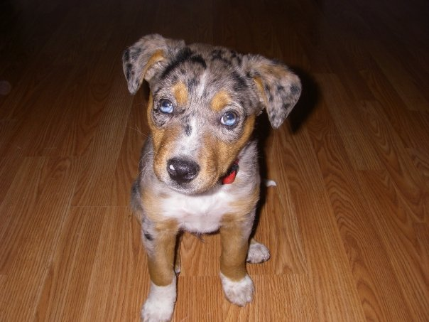 A good example of a catahoula trait, the cracked glass eyes.